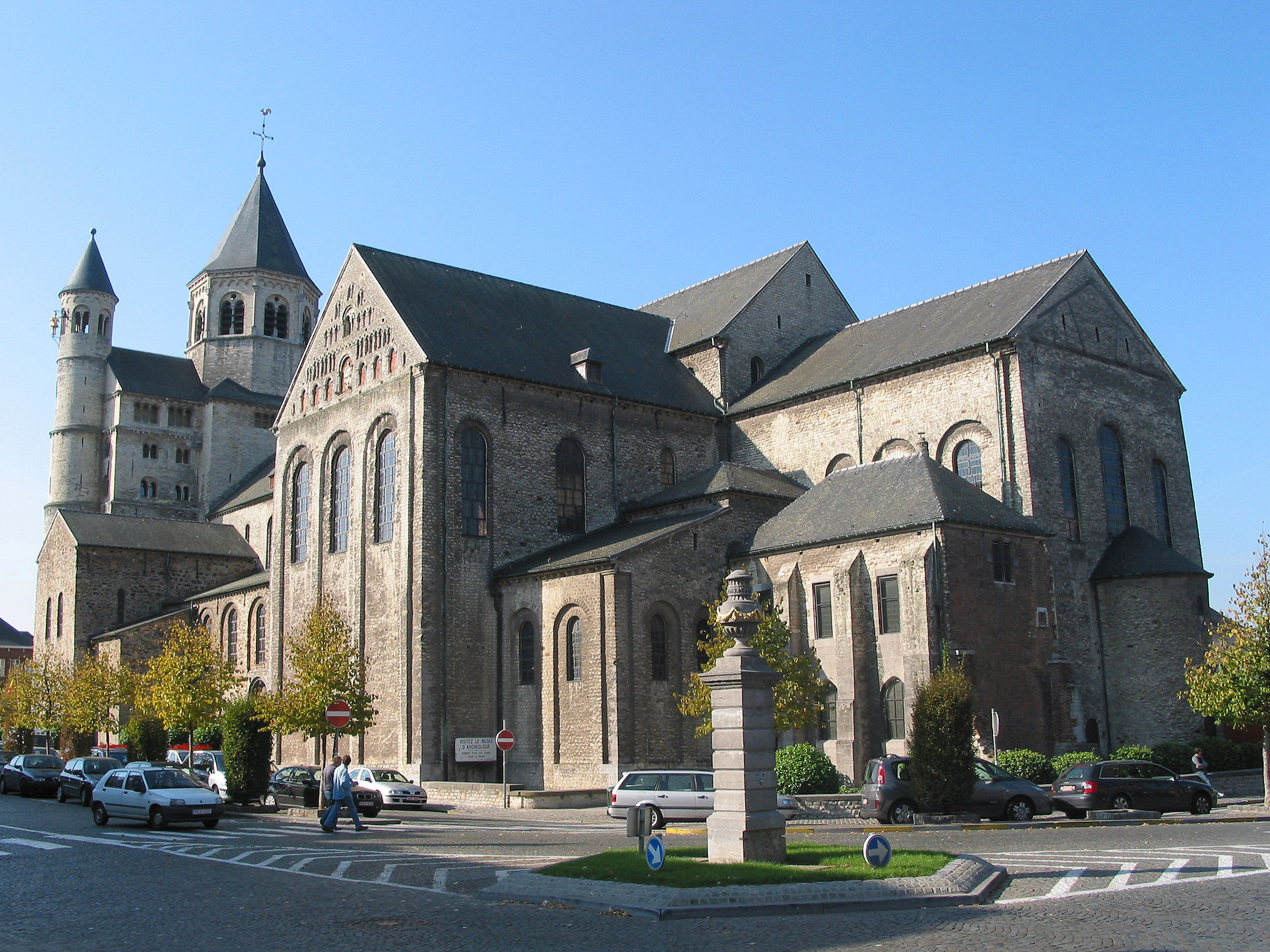 Nivelles (Belgium), the romanesque St. Getrude colegiate church (XI/XIIIth centuries).